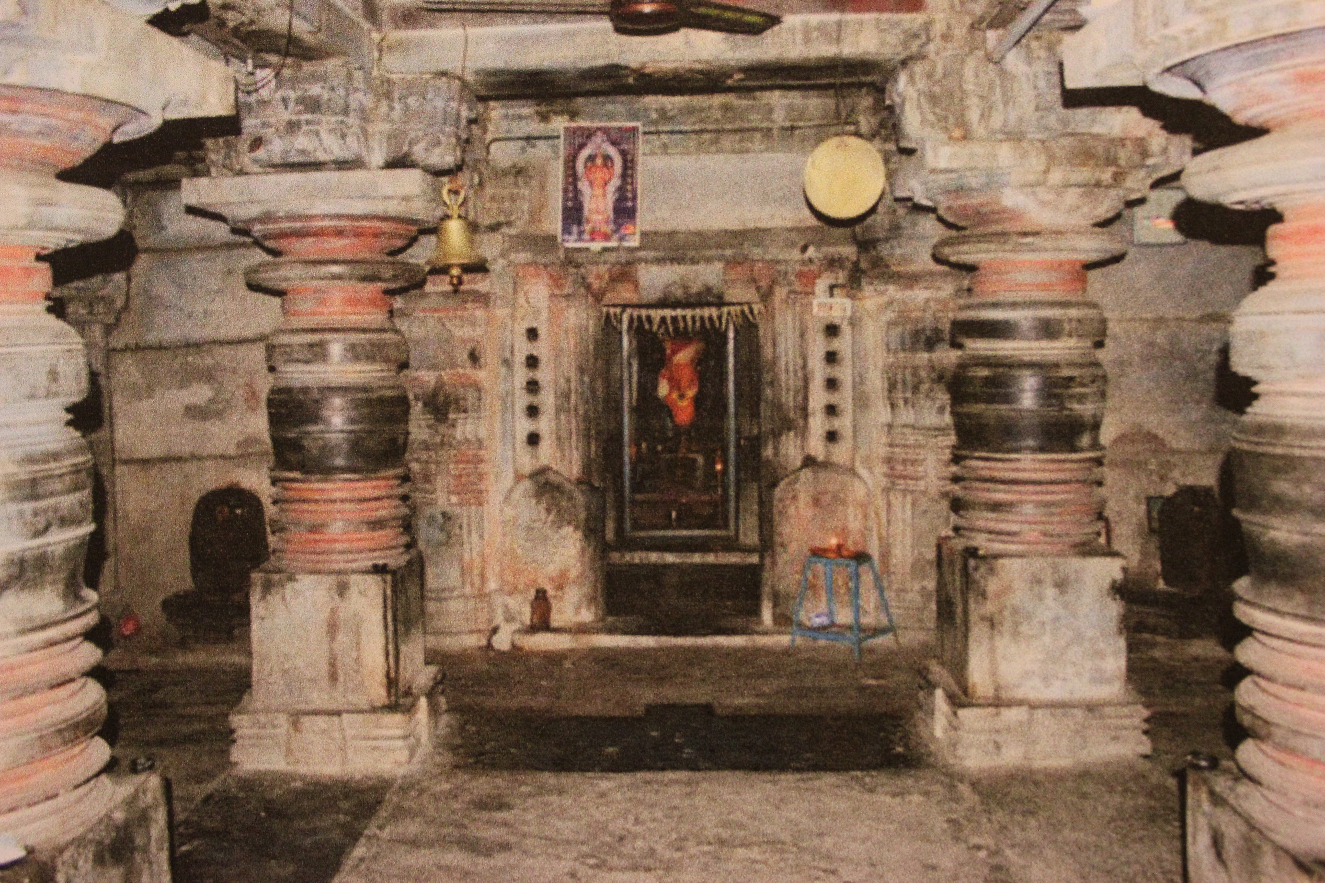 This photograph was taken inside the Chennakeshava temple (also spelt Chennakesava or called Chennigaraya) at Turuvekere, Tumkur district, Karnataka state, India.